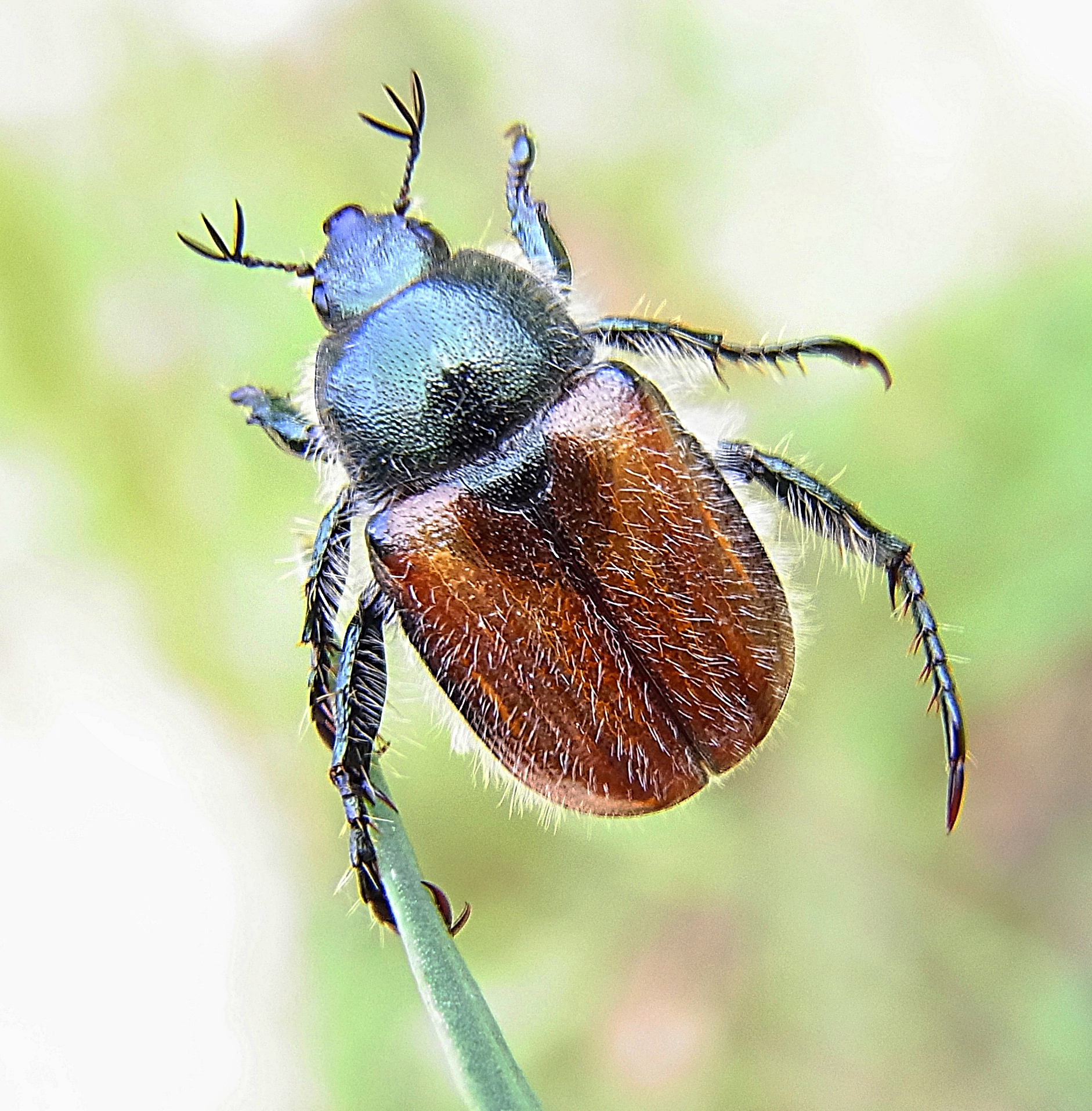 Anisoplia villosa from southern France north of Beziers at 2011-06-11